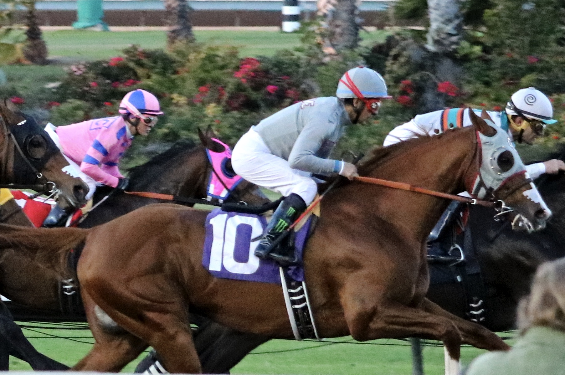 California Chrome early in the Winter Challenge Stakes, which he won by 12 lengths at Los Alamitos Race Track, December 17, 2016. Jockey in pink silks in the background is Chantal Sutherland